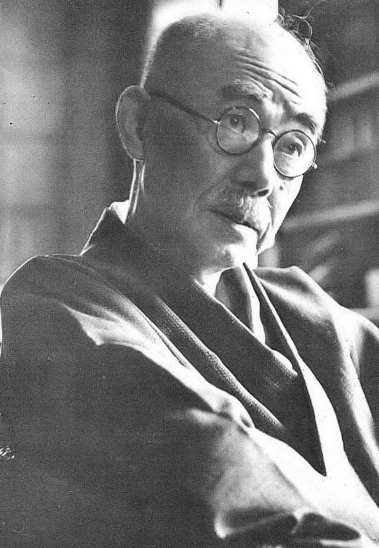 Kunio Yanagita